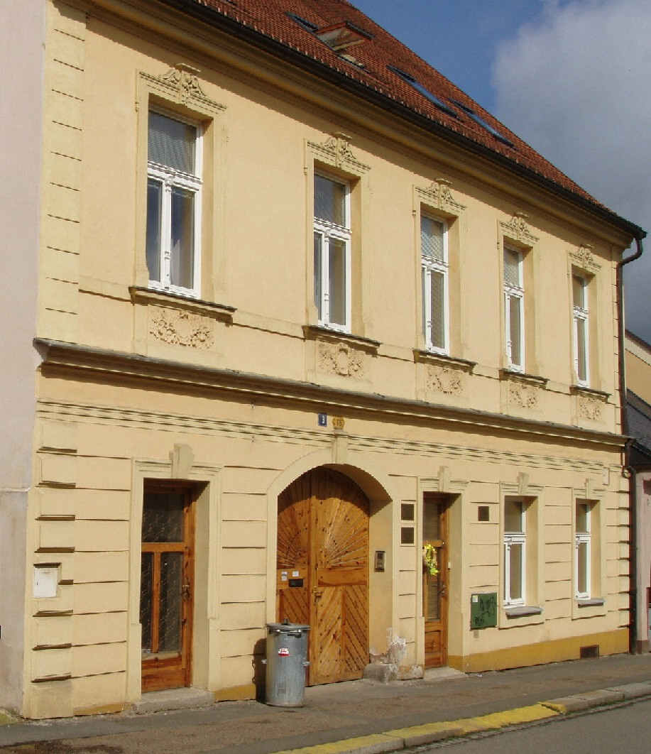 Native house of Alois Laub